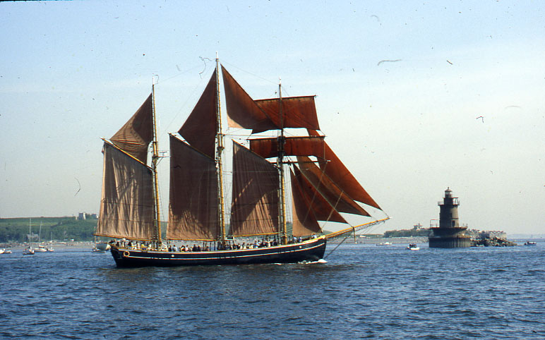 Title: Tall Ship, Boston Harbor Creator: Peter H. Dreyer Date: 1980 May 30 Source: Collection 9800.007, Peter H. Dreyer slide collection File name: 9800007_360 Photographer: Peter H. Dreyer Rights: Public Domain, Please credit Peter H. Dreyer Citation: Peter H. Dreyer slide collection, Collection #9800.007, City of Boston Archives, Boston